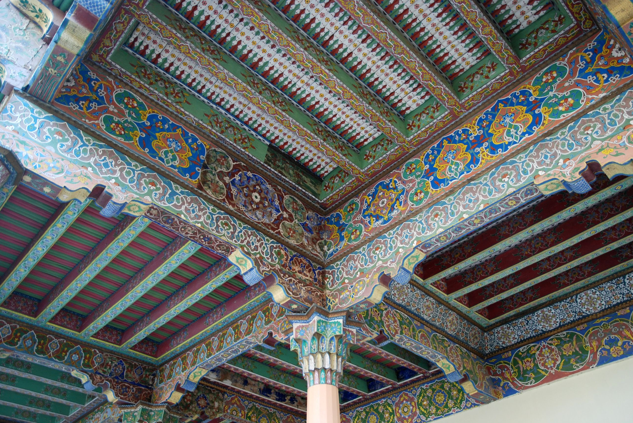 Istaravshan, Havzi Sangin mosque